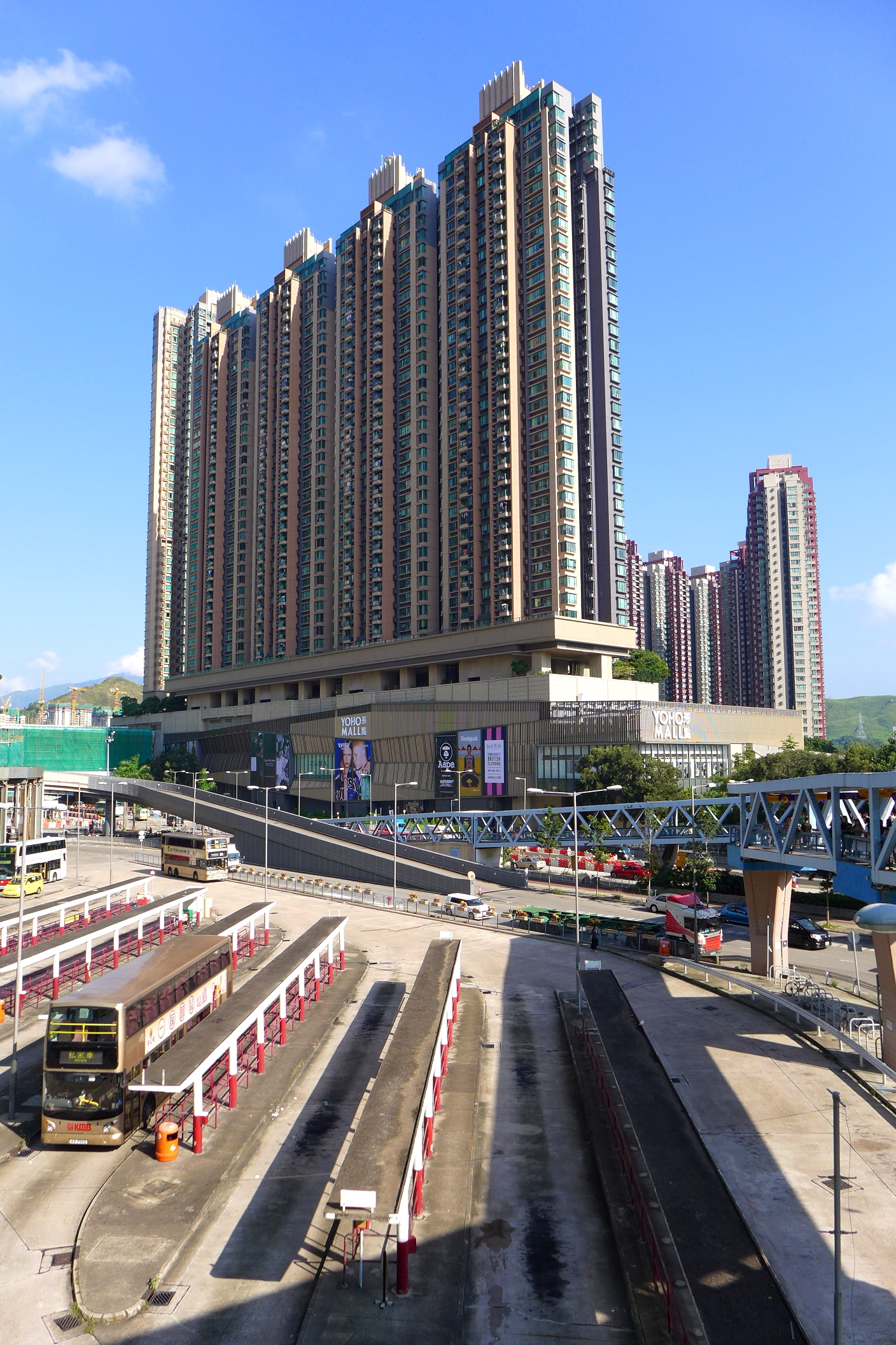 Yoho Midtown